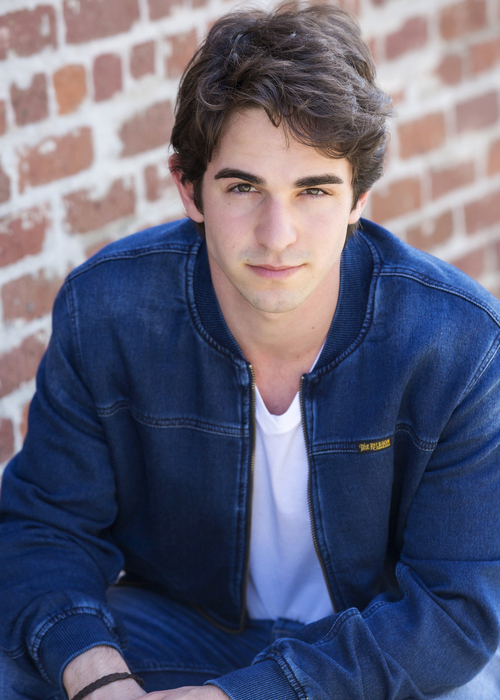 Zachary Gordon